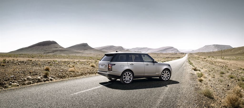 All-New Range Rover - Location Shot